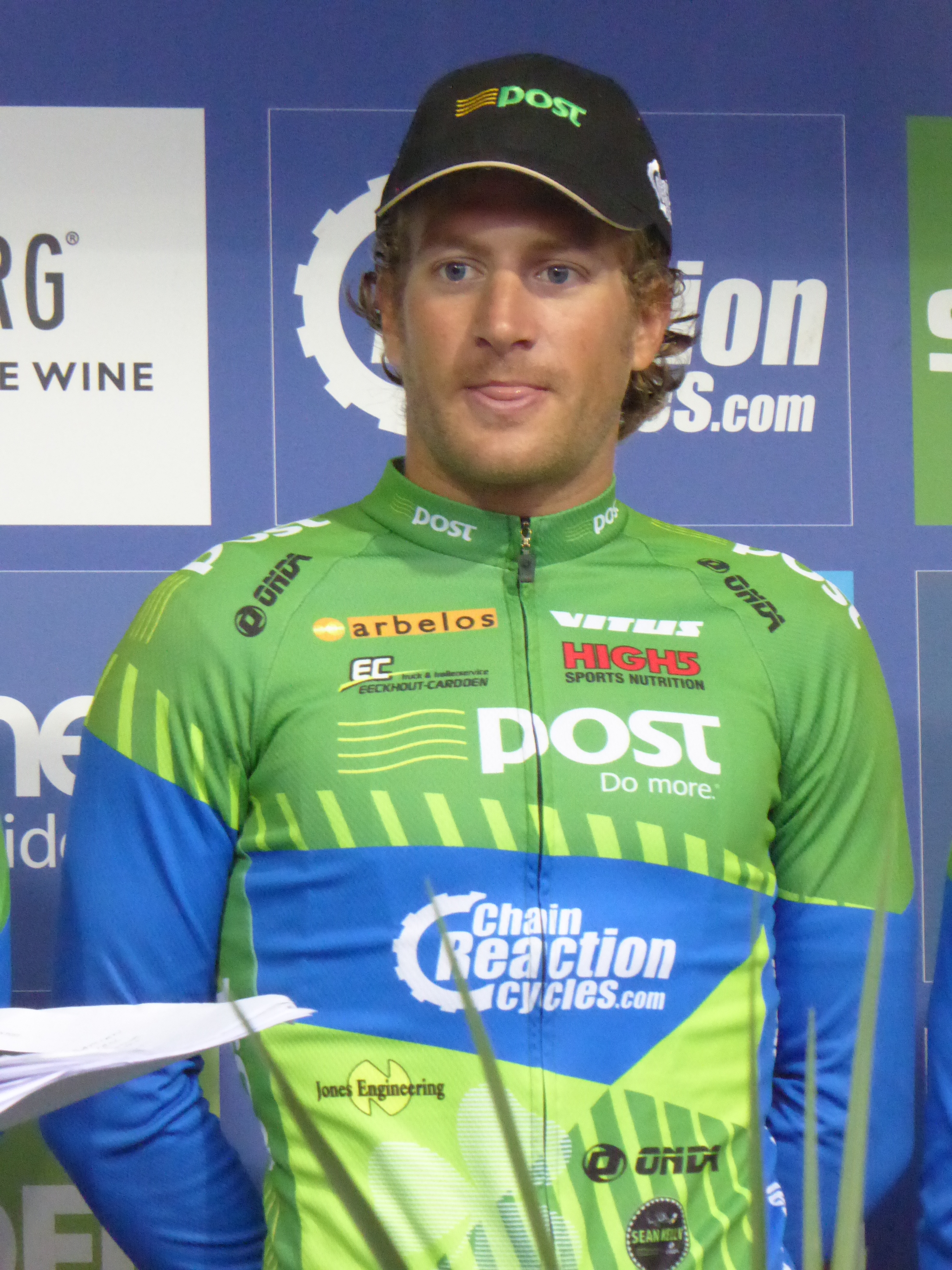 Nicolas Vereecken (An Post-Chain Reaction), pictured at the 2016 Tour of Britain team presentation in Glasgow on 3 September 2016.